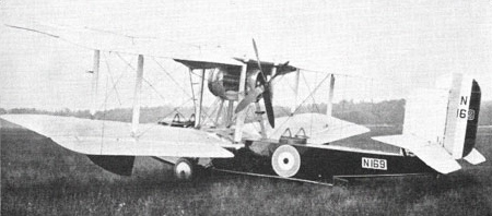 Vickers Vanellus flying boat